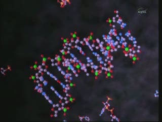 DNA of GFAJ-1 bacteria with phosphorus exchanged by arsen molecules (green).